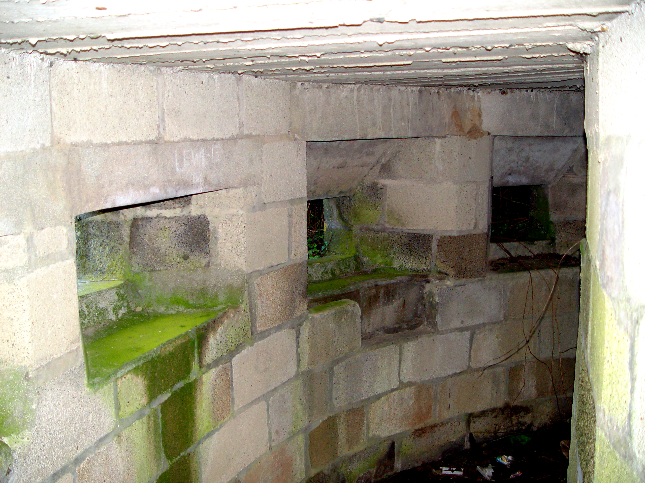 Inner view of a half-moon shaped Pillbox, in Porthcurno, Cornwall, UK.